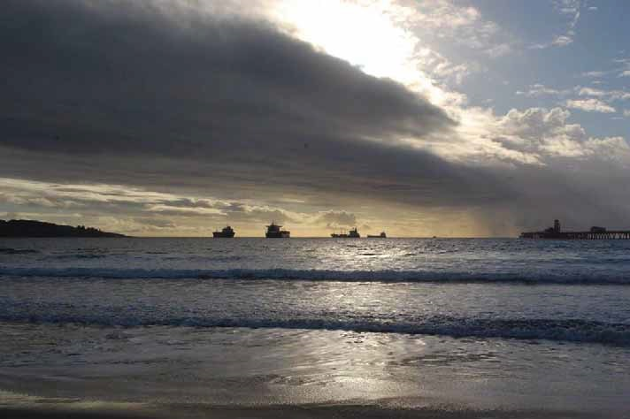 Loncura beach in Quintero, Chile